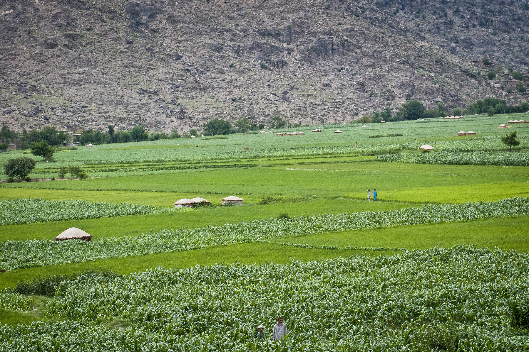 Villagers tend their fields in the Pech River Valley in eastern Afghanistan's Kunar province, July 28. (Photo ID: 439852)